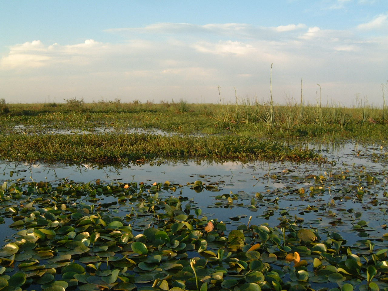 Iberá marshes (Argentina)